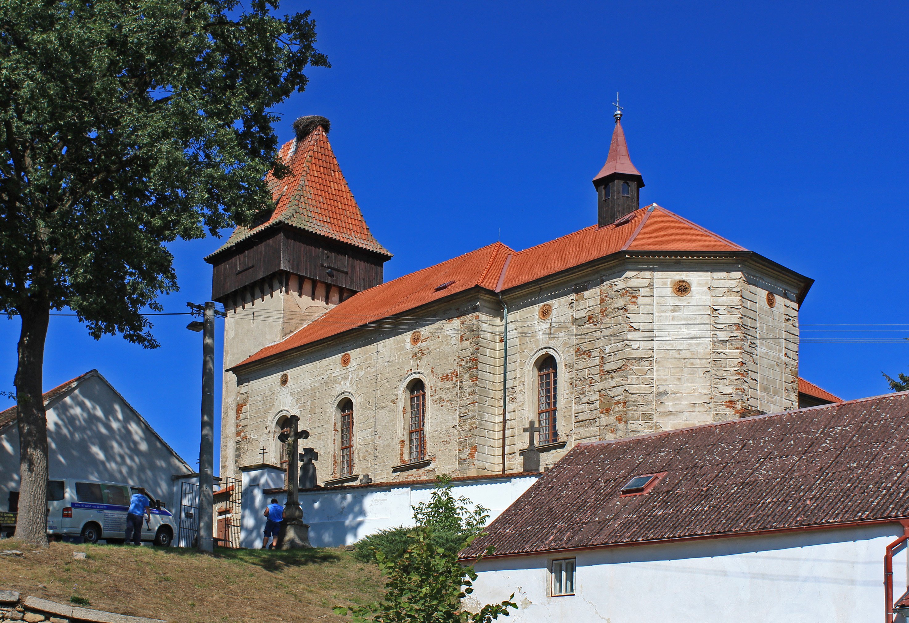 Church in Lipolec, part of Dačice, Czech Republic.